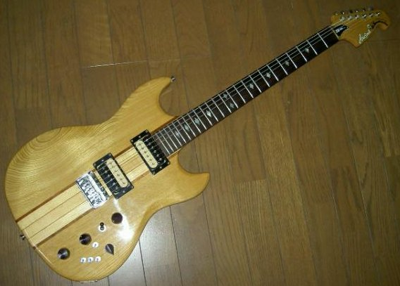 Aria Pro II, TS-600